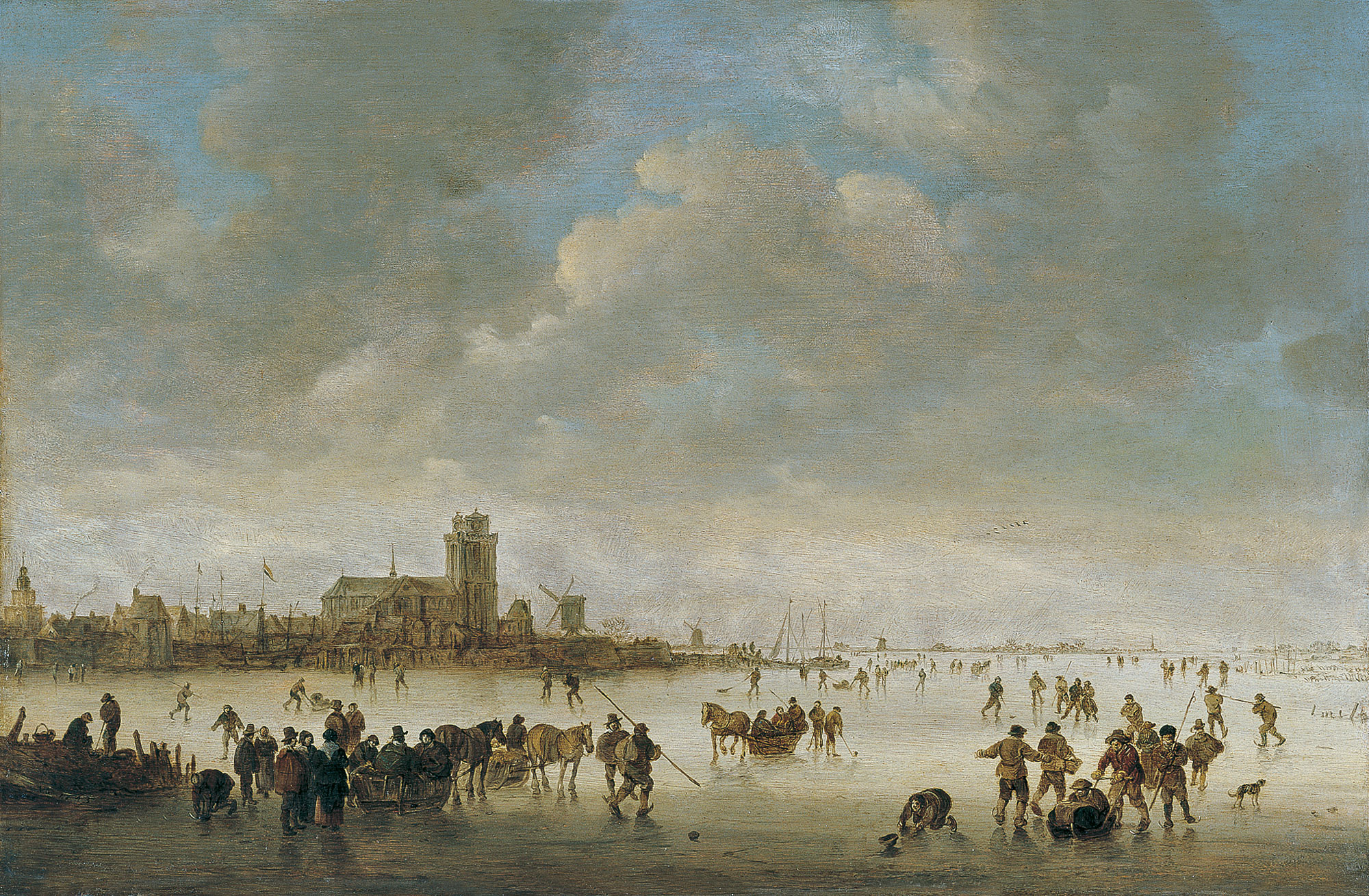 Winter Landscape With Figures On Ice